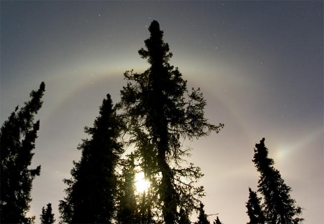 This photo of ice halos around the moon illustrates a number of relatively uncommon phenomena. First, the 22 degree halo itself (which is relatively common) as well as "parhelia" (moondogs) to the sides (the left one was hidden). A upper tangent arc appears tangent to and above the 22 degree halo, and finally a "parhelic circle" (although lunar, not solar) passes through the moondogs and the moon. Parhelia, upper tangent arcs, and parhelic circles are 73, 27, and 4 percent as common as 22 degree arcs, so this is a somewhat unusual event. Even though this photograph was taken at nighttime, some color is visible in the arcs.